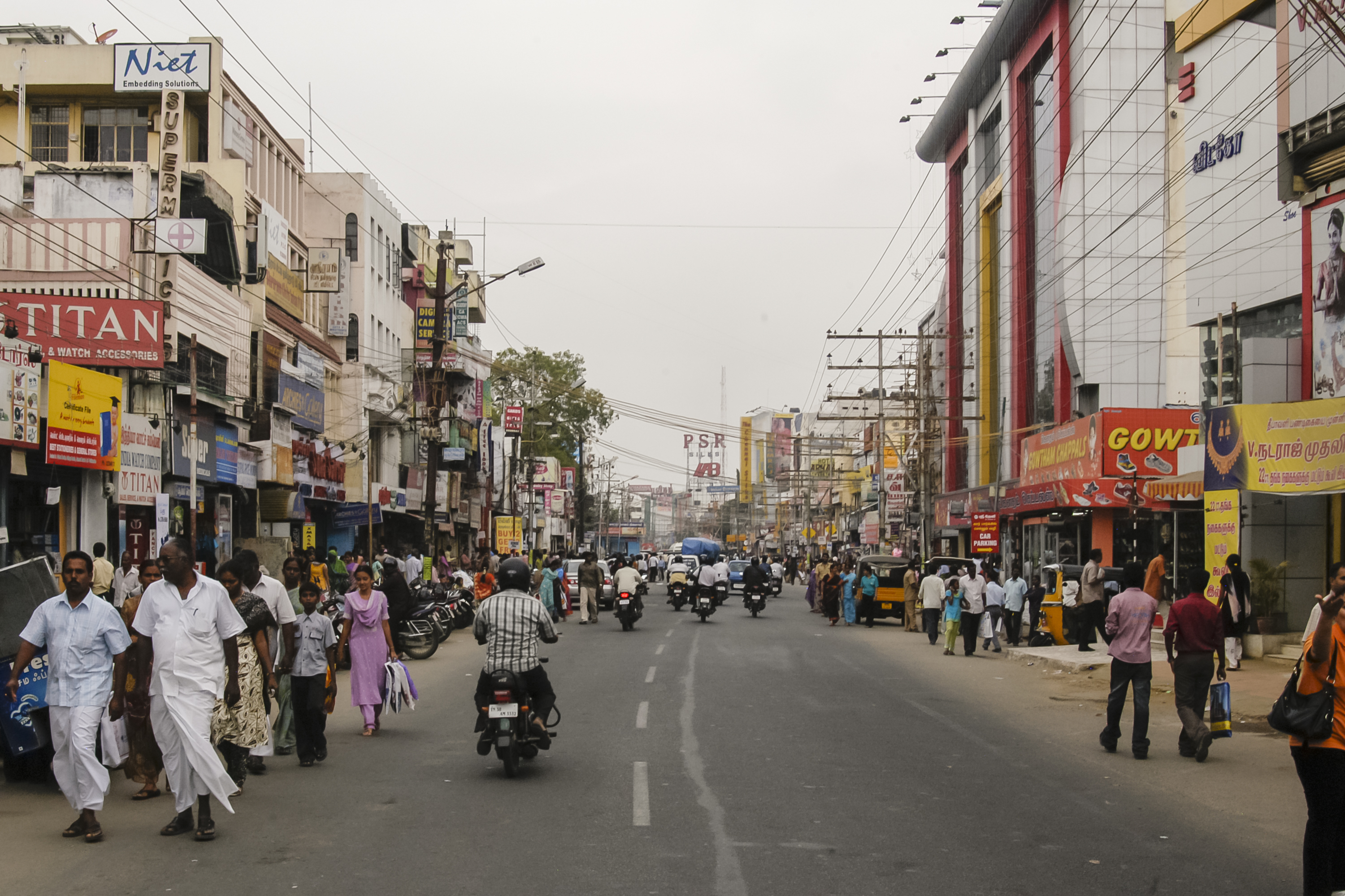 A street scene in Coimbatore, Tamil Nadu, India